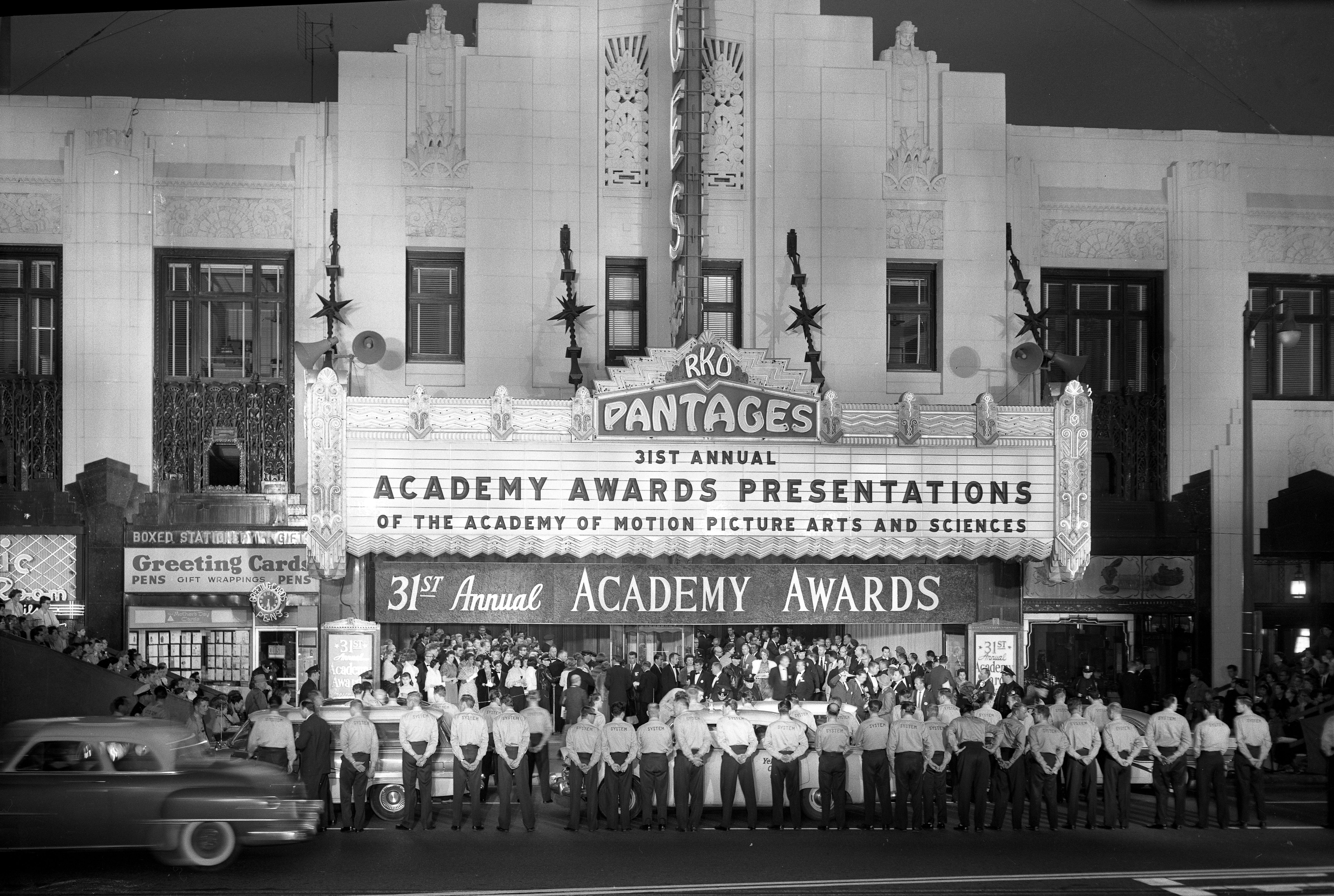 Title: Crowd lining street under the marquee of the Pantages Theater at the 31st Academy Awards in 1959 Published caption:BIG NIGHT-- Crowd stands outside the Pantages Theater in Hollywood as stars arrive for 31st Academy Awards presentation show. Publication:Los Angeles Times Publication date:Tuesday, April 7, 1959 Note about non-renewal of copyright: [1]